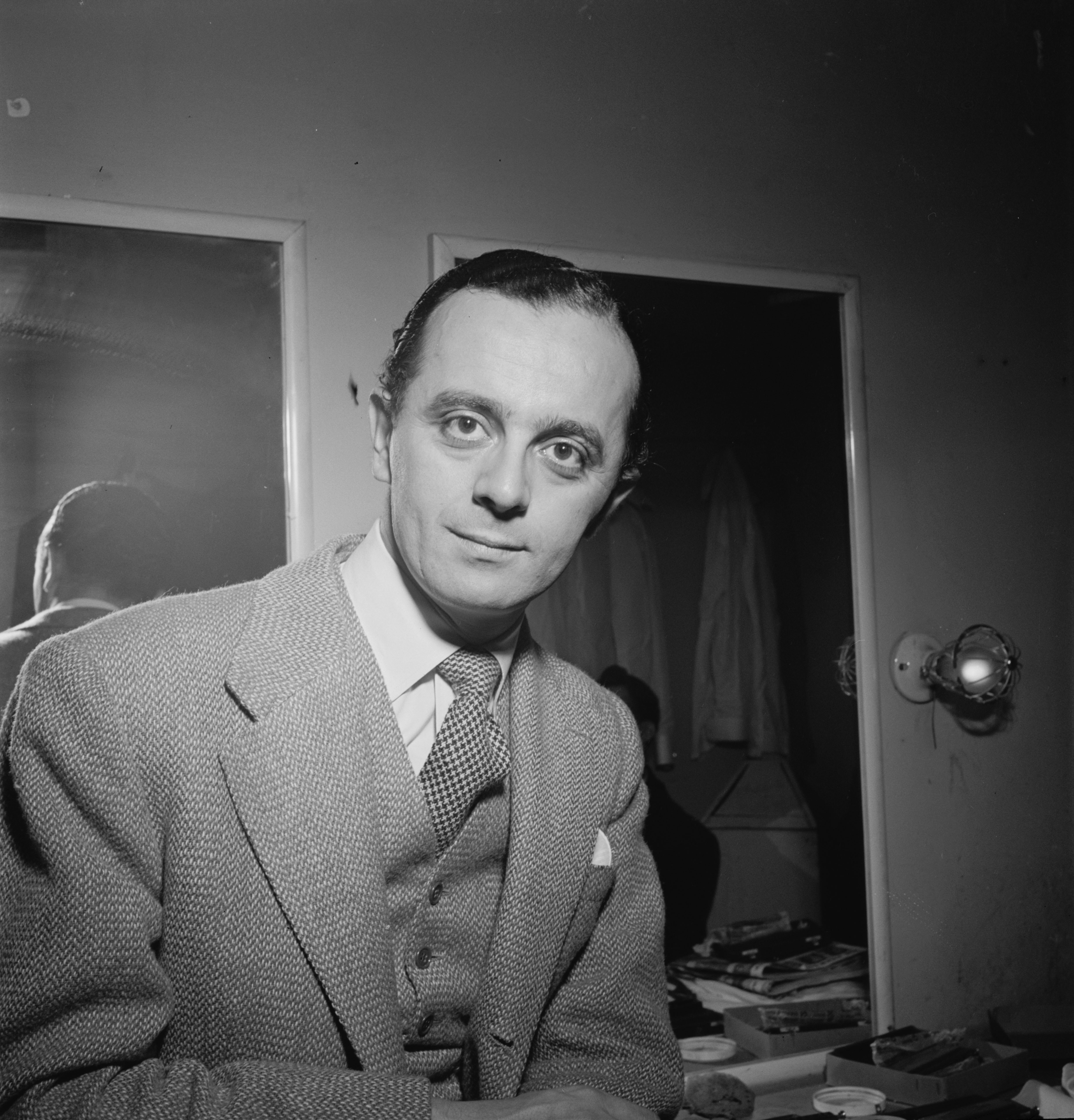 Larry Adler, City Cener, NYC, ca January 1947. Photography by William P. Gottlieb